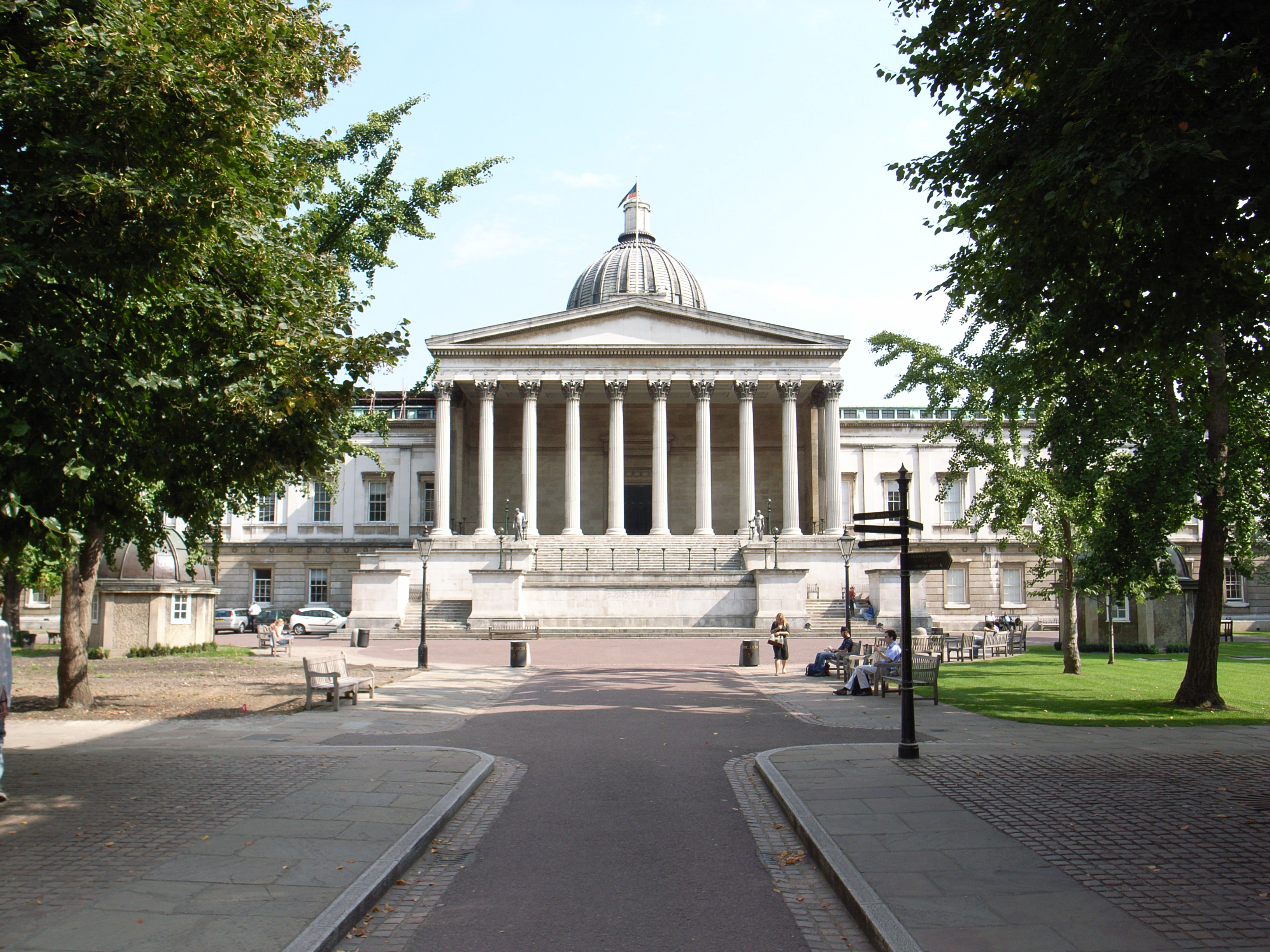 University College London, by William Wilkins